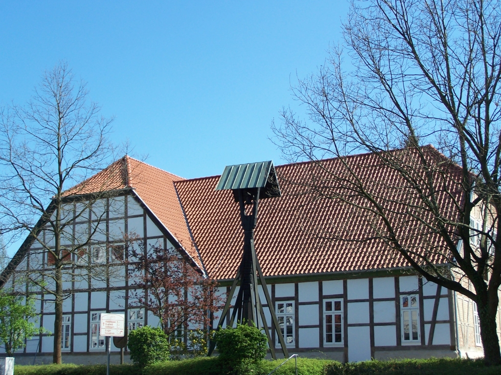 Town of Bünde, District of Herford, North Rhine-Westphalia, Germany: German Tobacco and Cigar Museum.